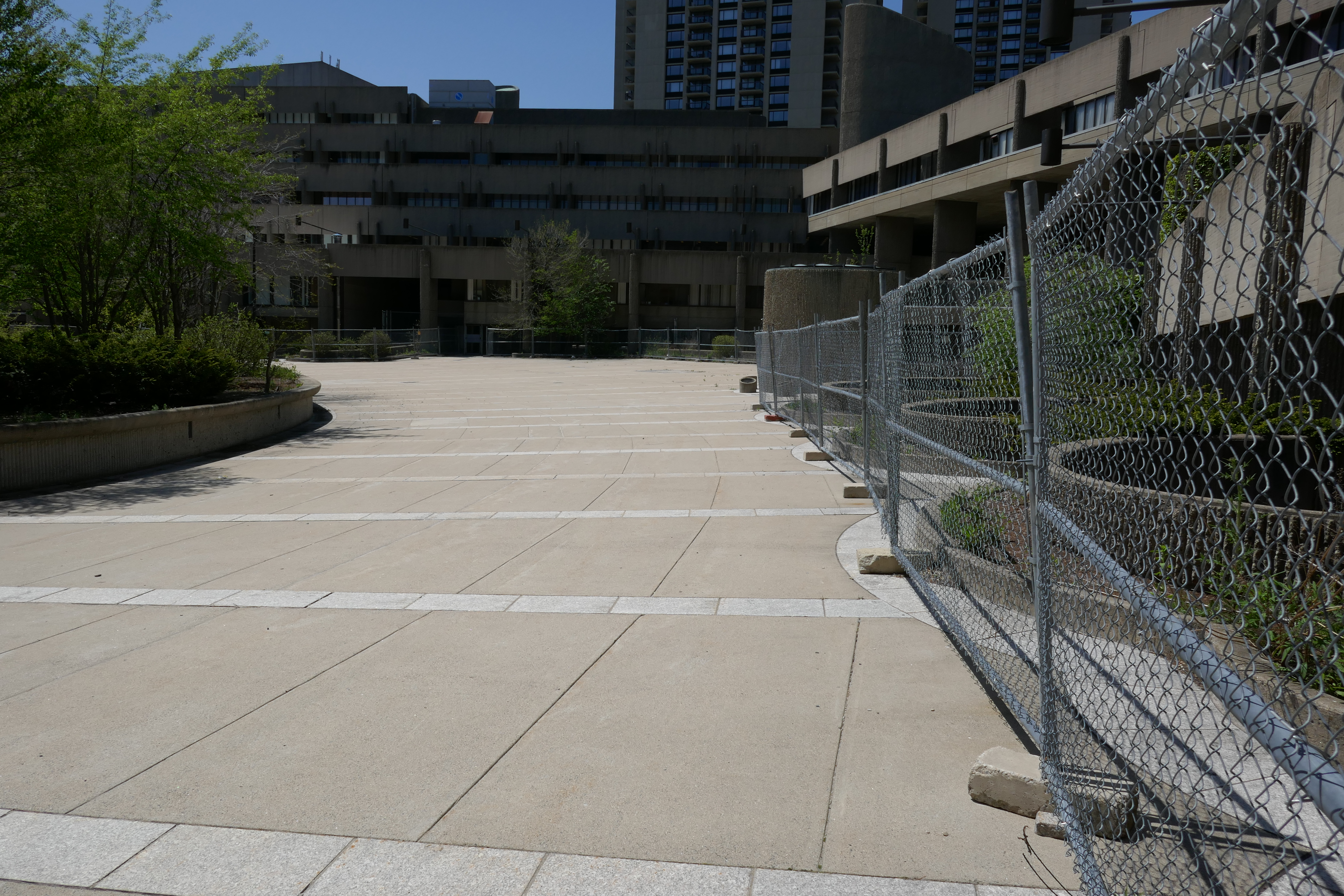 Courtyard of Government Service Center Boston